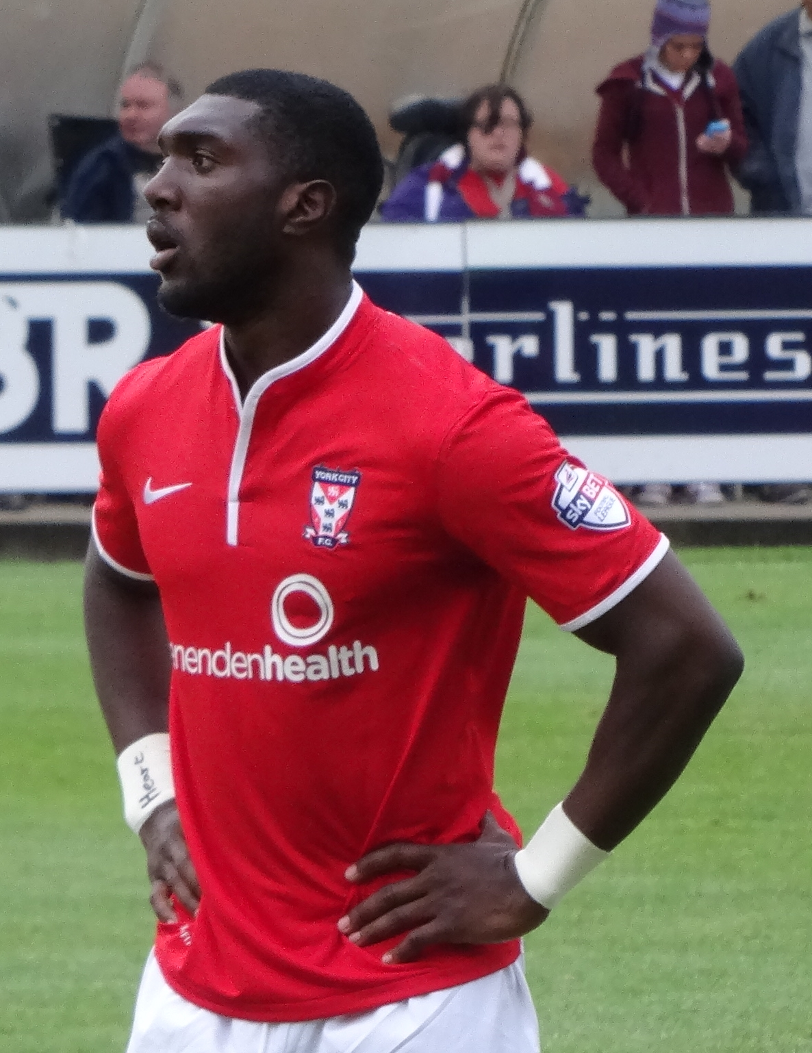 Femi Ilesanmi playing for York City against Northampton Town at Bootham Crescent, York on 16 August 2014